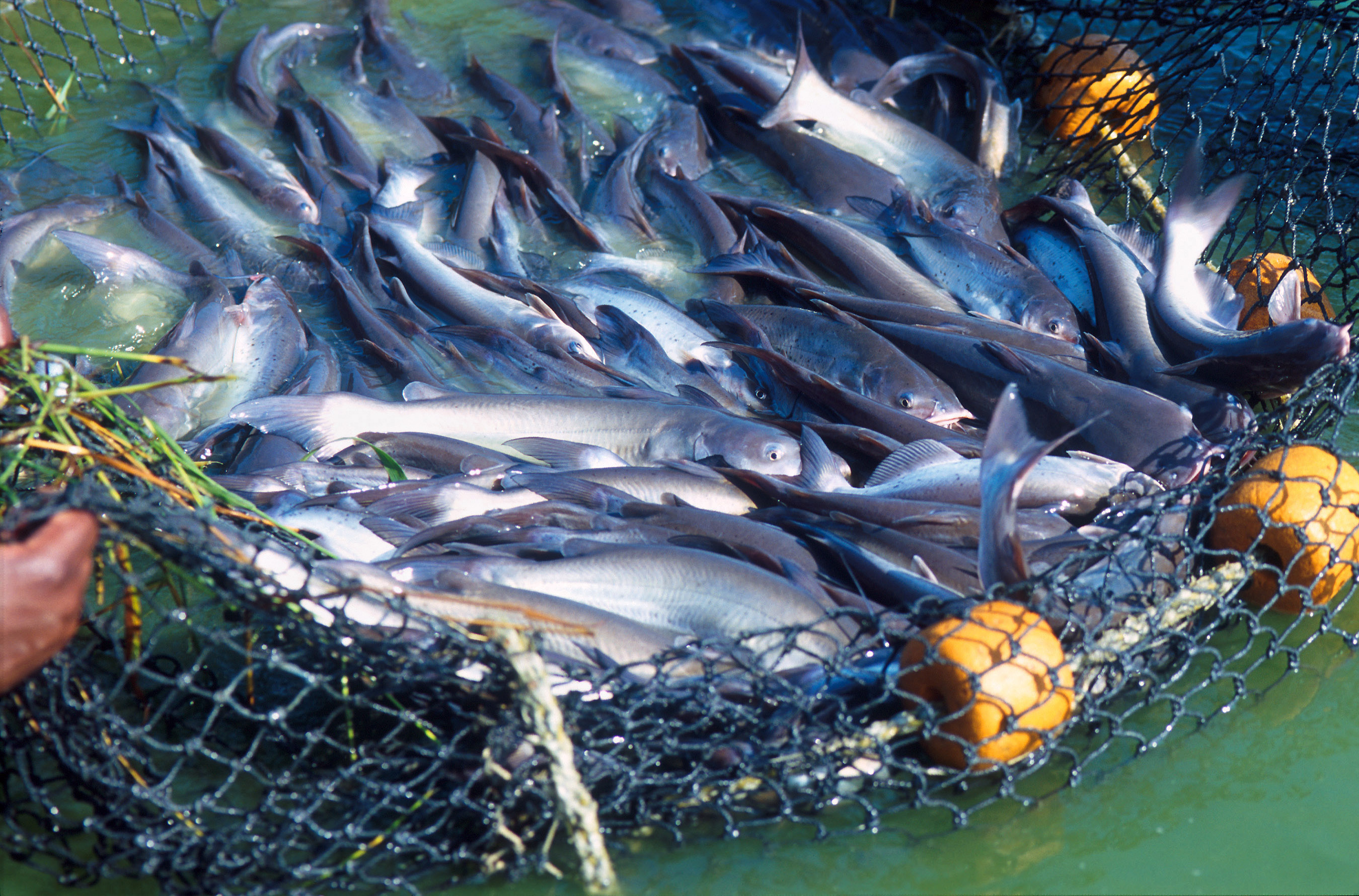 Original caption: “Market-size USDA 103 catfish ready for harvest. This new variety grows faster than other catfish.”